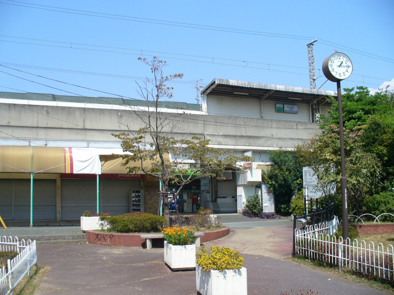 Frontview of Kyarabashi station of Nankai electric railway Takashinohama line, Takaishi city Osaka prefecture Japan.